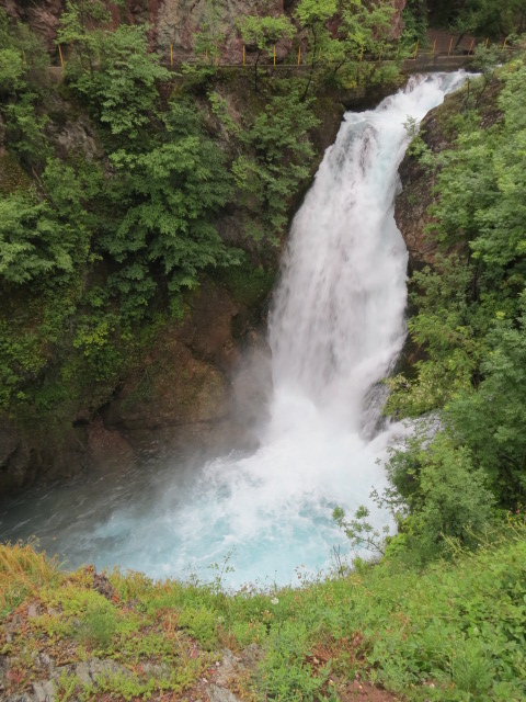 Source of the White Drin (Albanian: Drini i bardhë) river near Radavc, in the Republic of Kosovo.